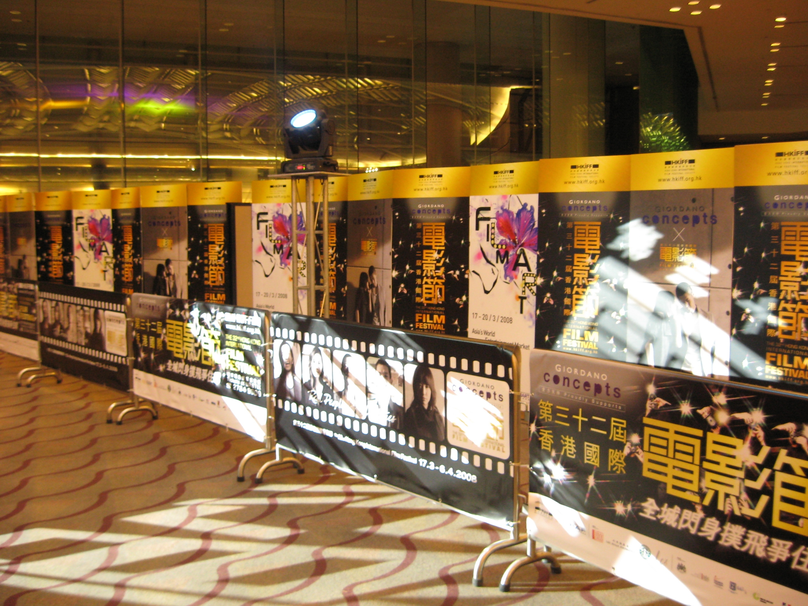 The 32nd Hong Kong International Film Festival